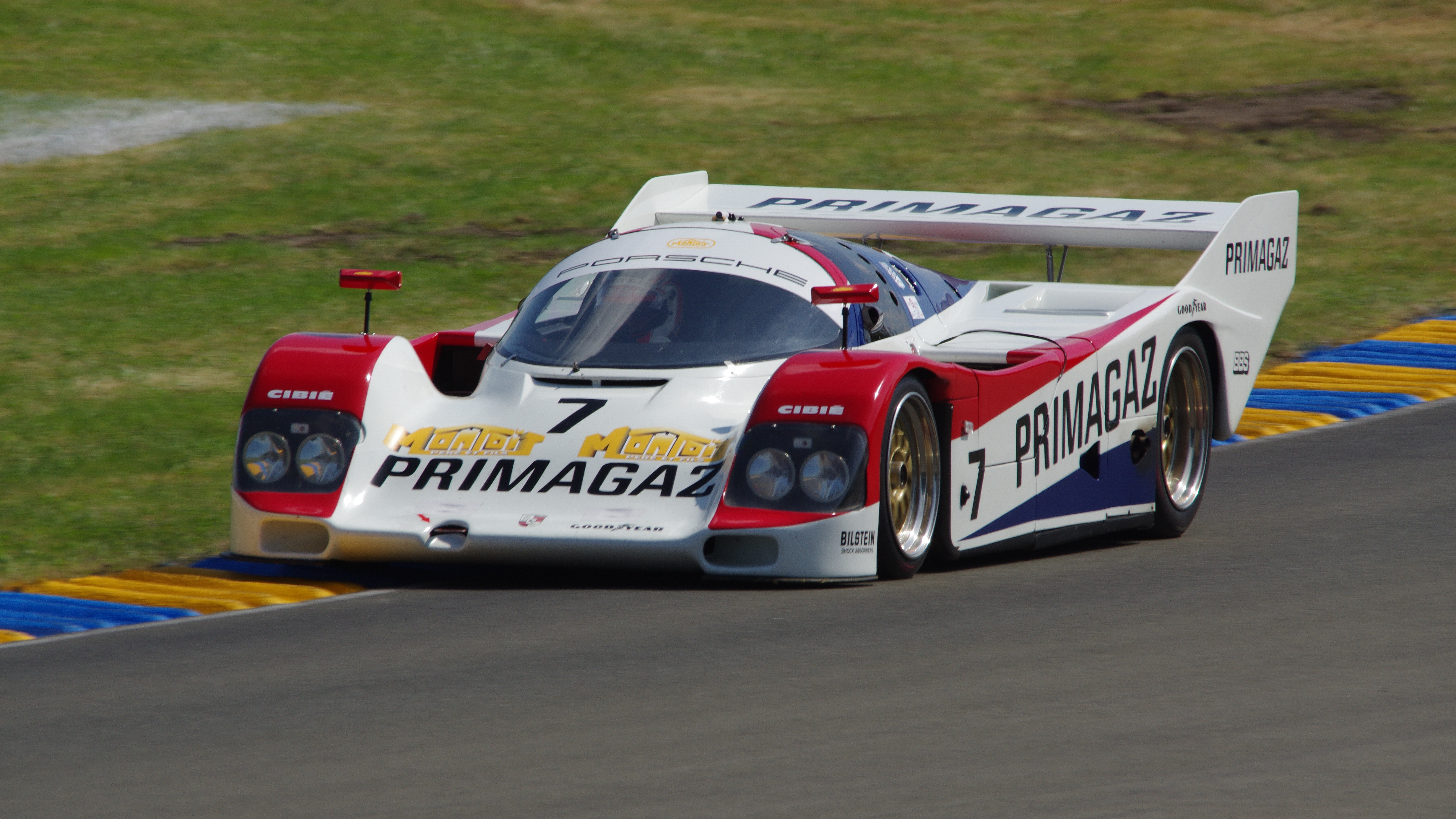 Obermaier Racing's Porsche 962C that has participate to the 1990 24 Hours of Le Mans driven by Jürgen Oppermann, Harald Grohs and Marc Duez